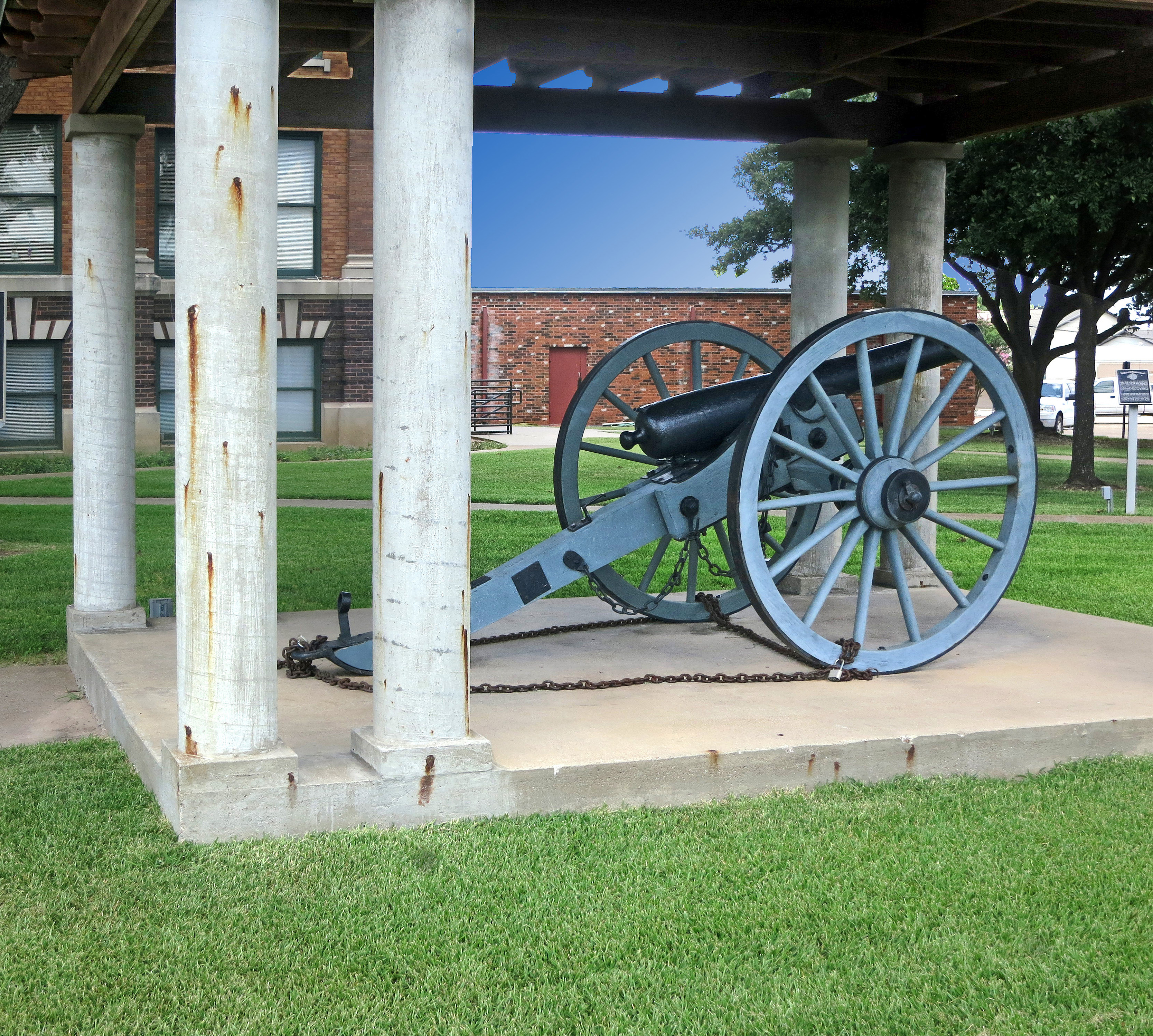 Six brass field guns taken by Lt. Joseph D. Sayers' Company in Civil War Battle of Val Verde, N. Mex., 1862, and brought back to Texas with incredible difficulty, armed a new unit of hand-picked men. Sound of the Val Verde guns in action set pace for other outfits, helped secure such victories as the recapture of Galveston, 1863. At Mansfield, La., April 1864, captured new, longer-range guns. Unwilling to lose their guns when the war ended, the men buried four. The last commander, T.D. Nettles, brought this one home to Freestone County.